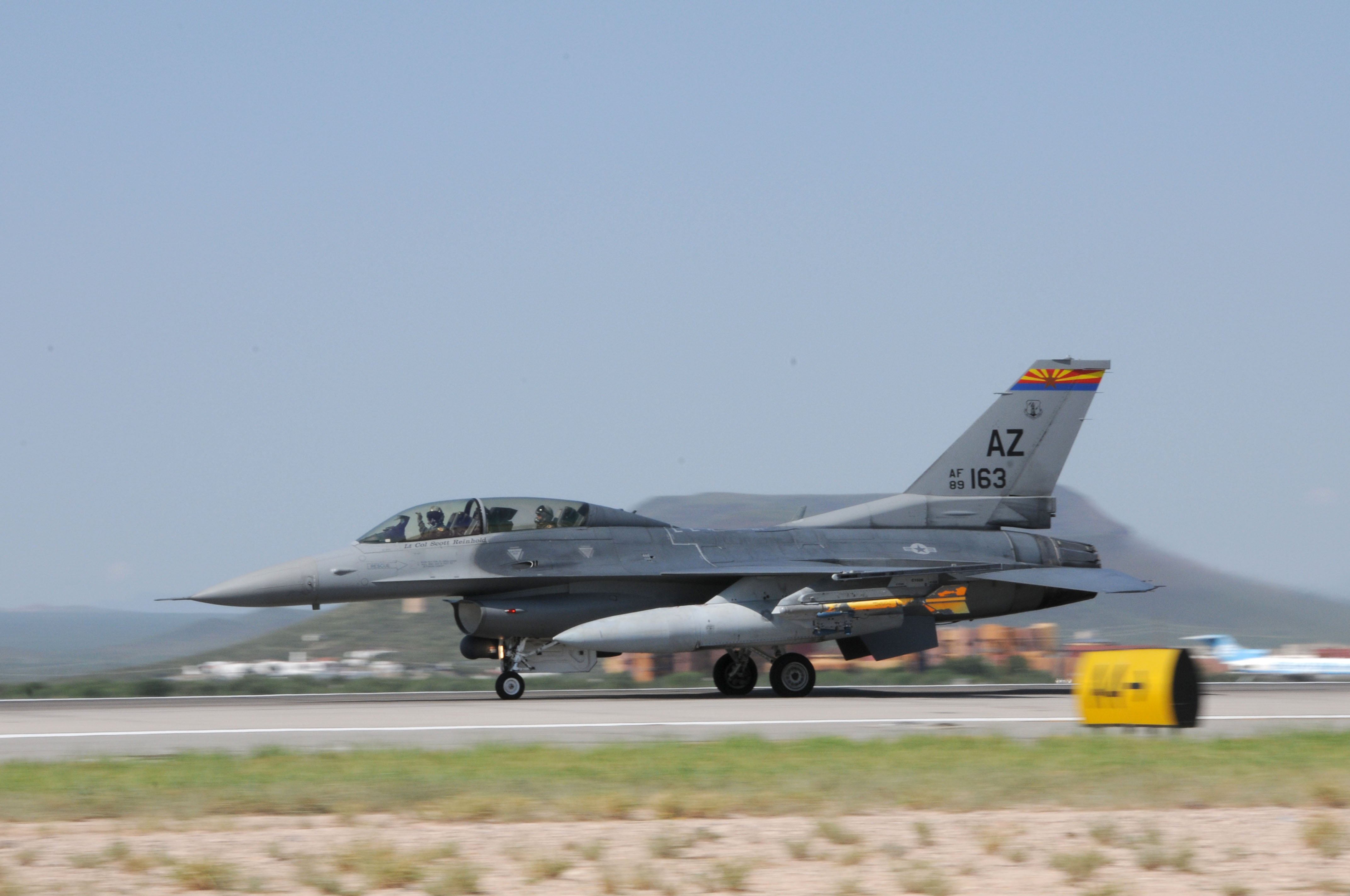 Col. Andrew MacDonald takes off with Iraqi air force Brig. Gen. Abdulhussein Lafta Ali Ali in an F-16D Fighting Falcon for an orientation flight at Tucson International Airport, Aug. 30, 2012. MacDonald is the 162nd Operations Group commander. Abdulhussein, with a delegation of senior Iraqi officers, visited the international F-16 training wing where Iraqi pilots are learning to fly the multirole fighter.